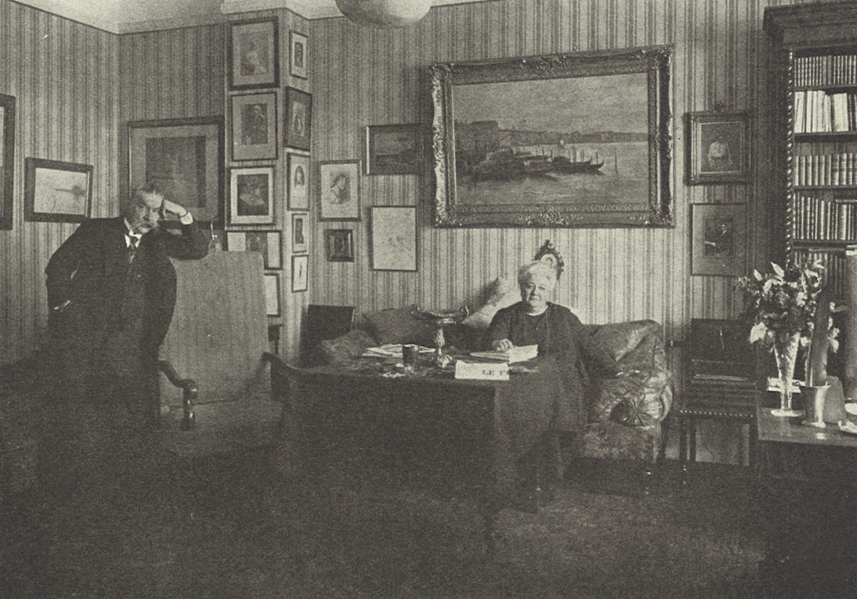 Daniel Fallström (1858-1937), Swedish poet and critic, with his wife Annna (née Larsson) in their home at Runebergsgatan in Stockholm.